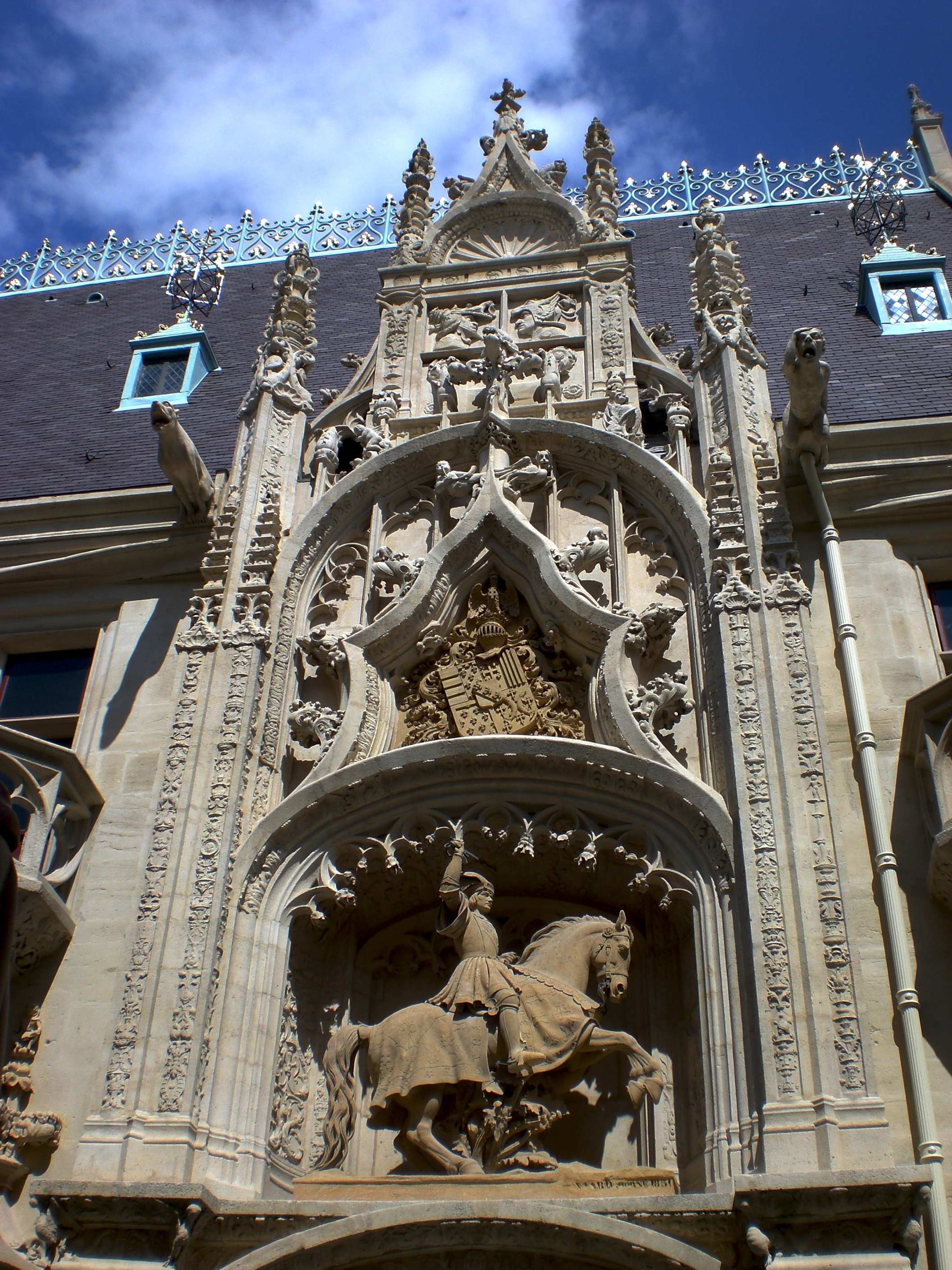 Nancy,Palace of the Dukes of Lorraine, XVI Century